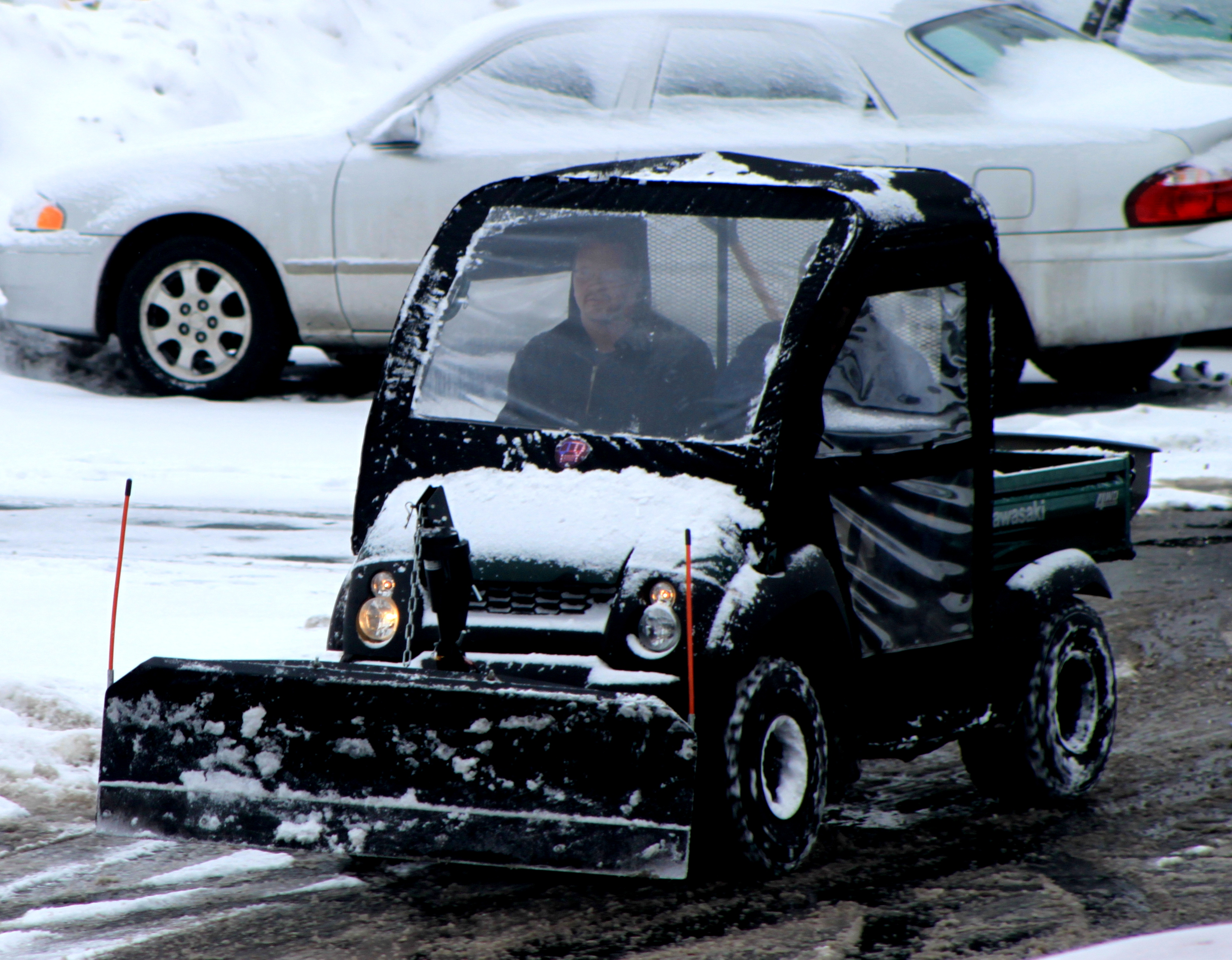 Kawasaki Mule utility vehicle used for snow removal in Ypsilanti Township, Michigan